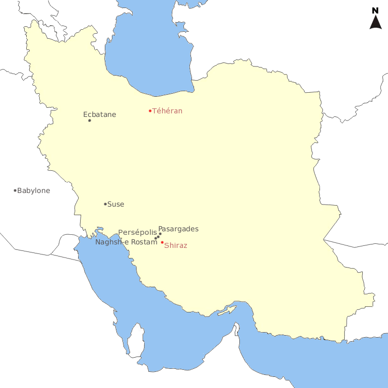 Map locating principal achaemenids towns and places.